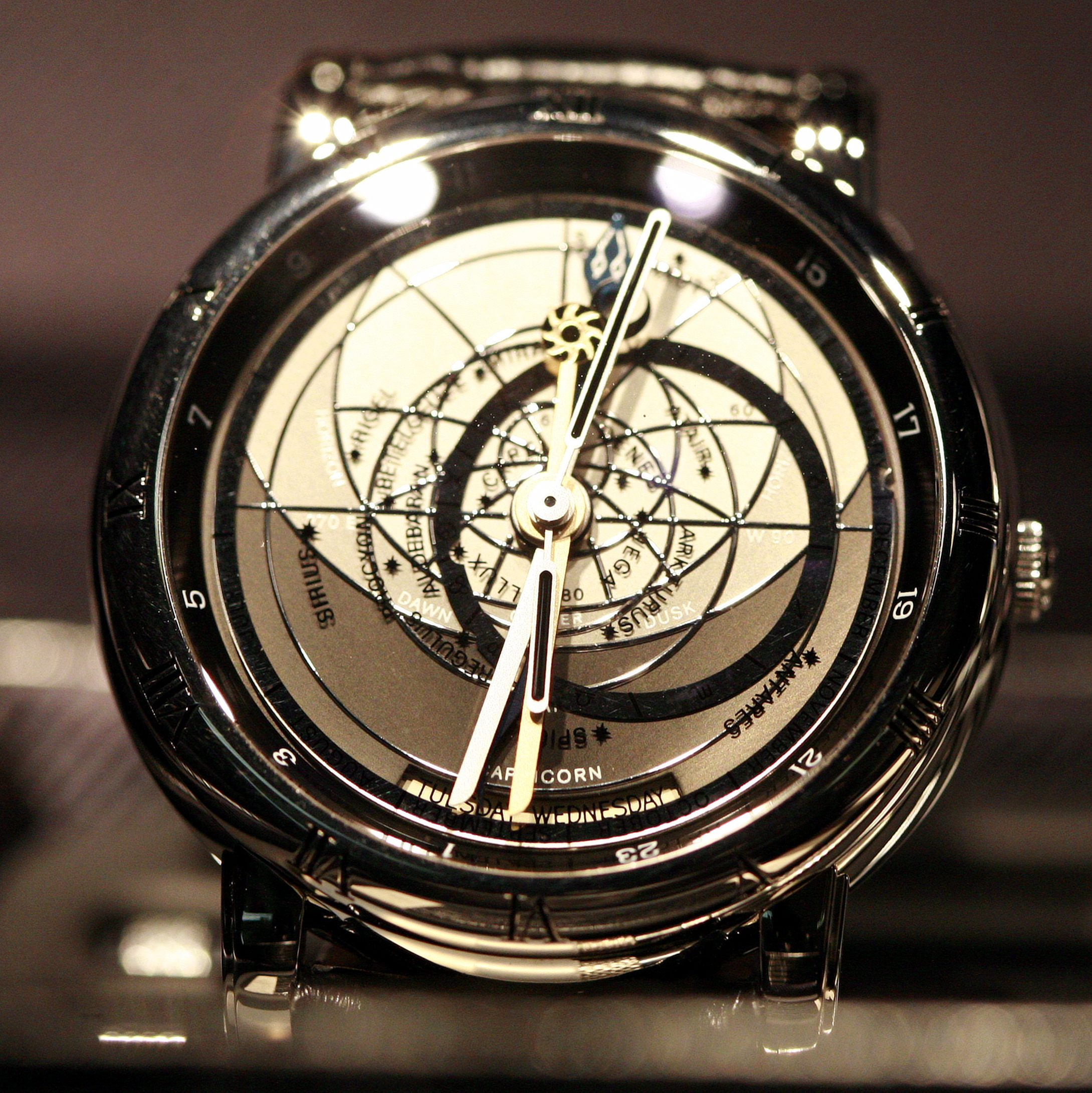 wristwatch "Astrolabium Galileo Galilei" by Ulisse Nardin